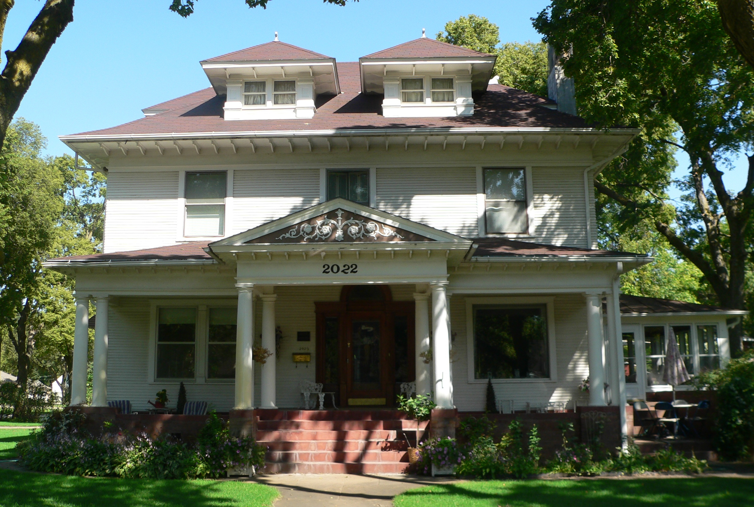 L. Frederick Gottschalk House, located at 2022 17th Sttreet in Columbus, Nebraska; seen from the south. The Classical Revival house was built in 1911. It is listed in the National Register of Historic Places.